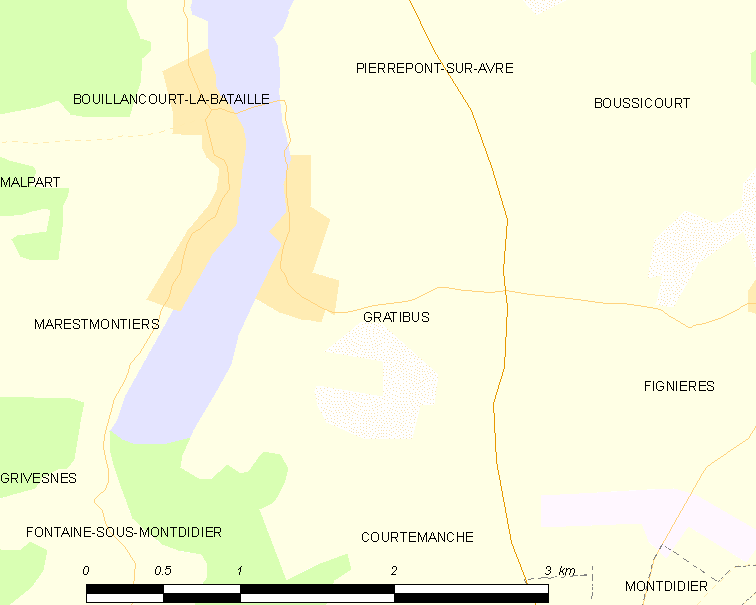 Map of French municipality Gratibus